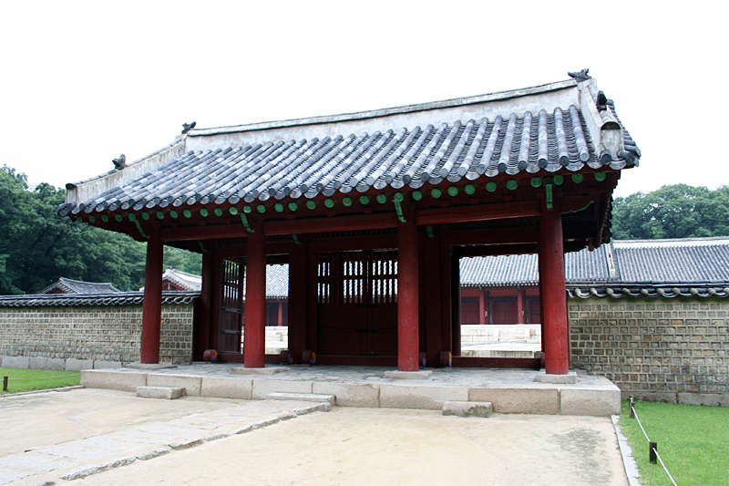 The main gate of Yongnyong-jon Hall.